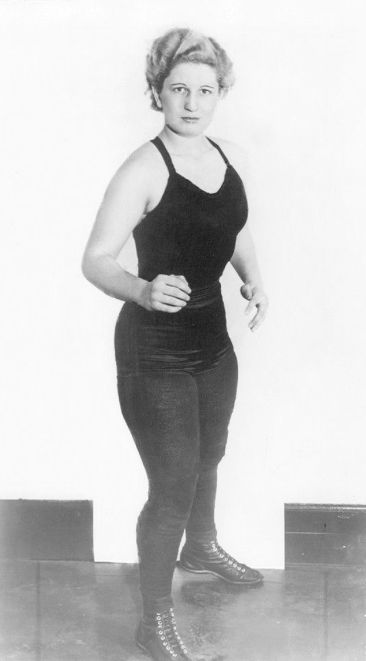 1942 Professional Wrestler Gladys Killem Gillem Press Photo